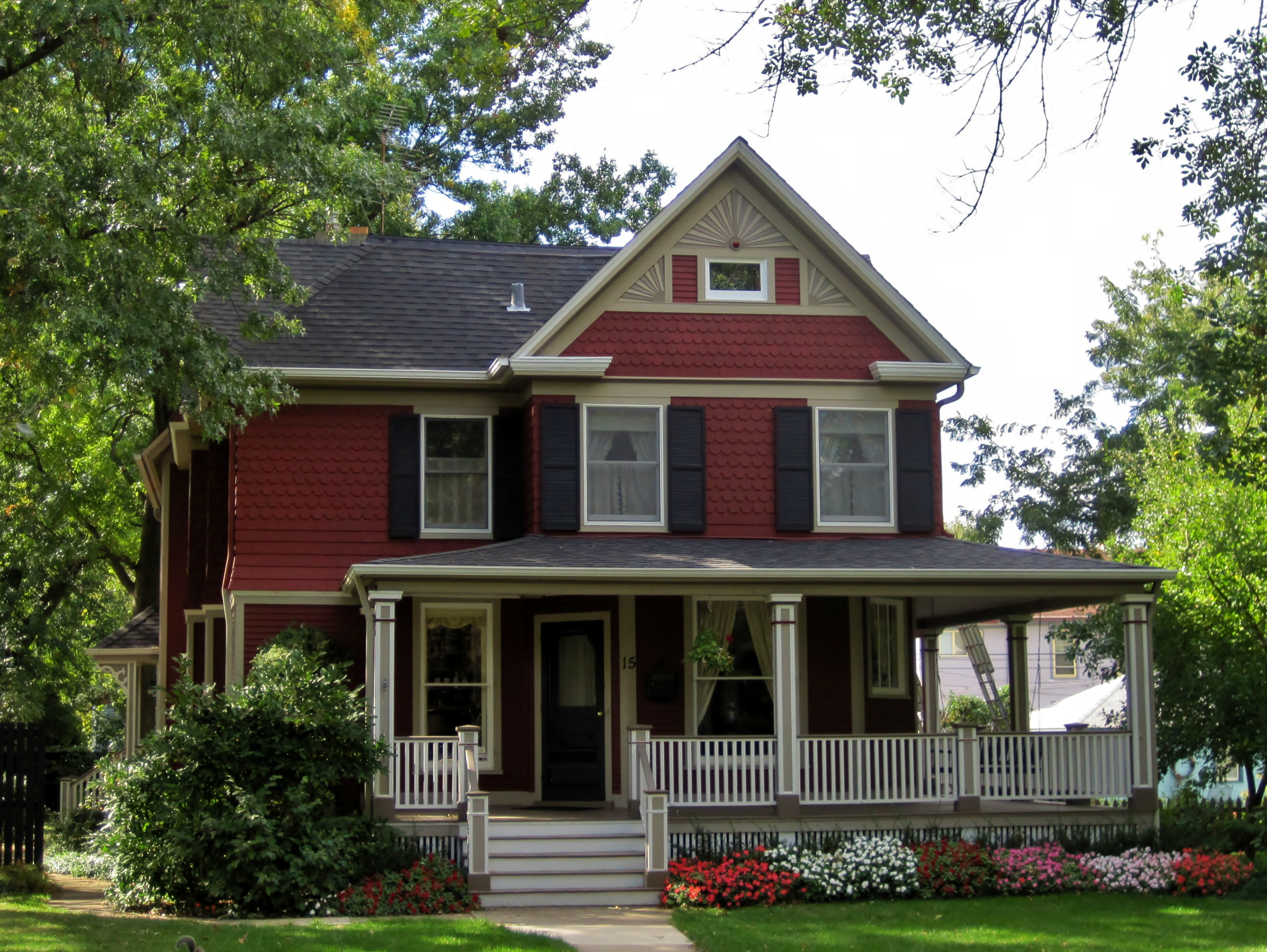 H. A. Unger House in the Naperville Historic District (1883). A corner turret was removed in the 1940s. Unger was a local builder.